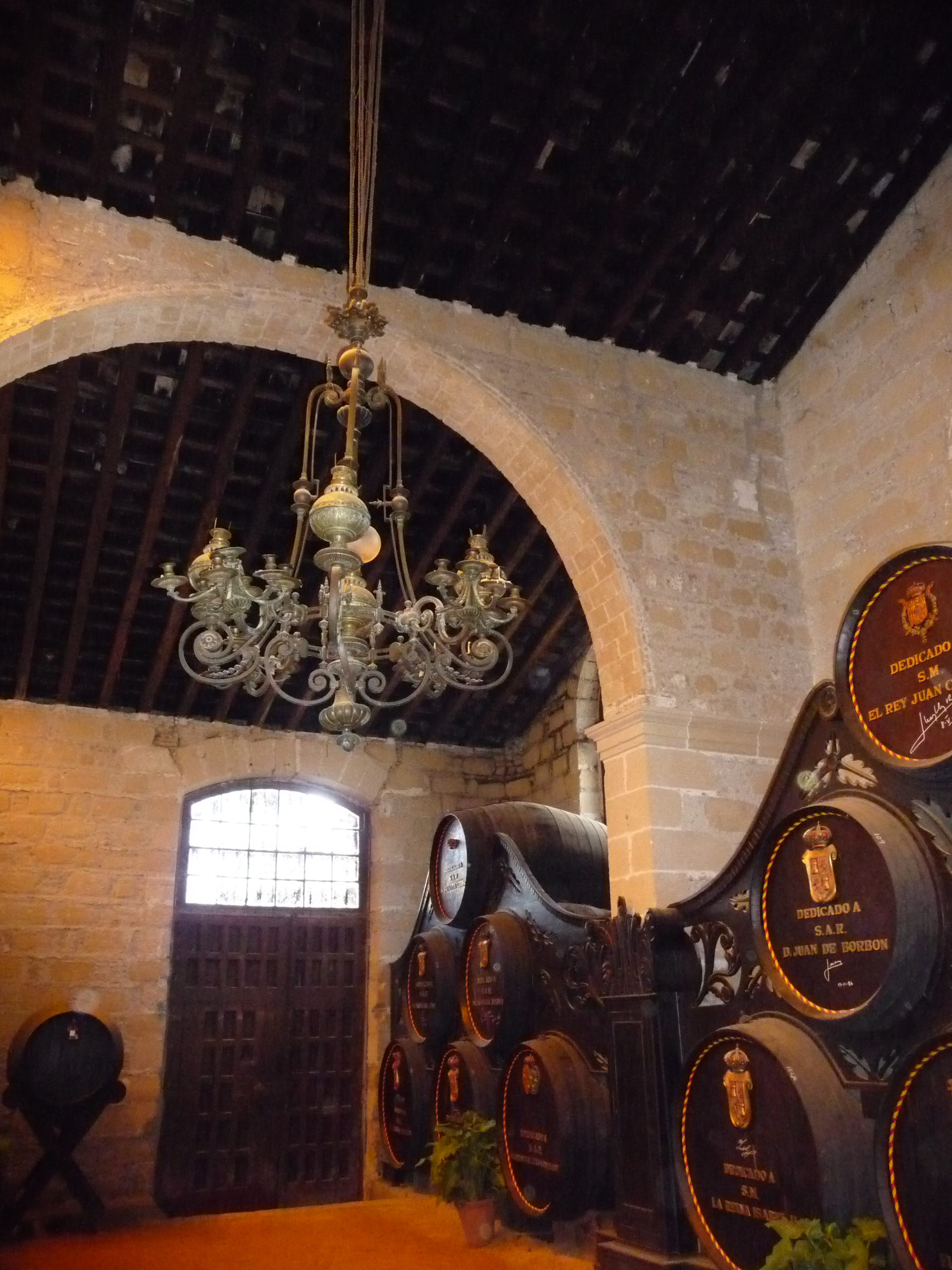 Gonzalez Byass VIP wine cellar in Jerez de la Frontera (Andalusía, Spain)